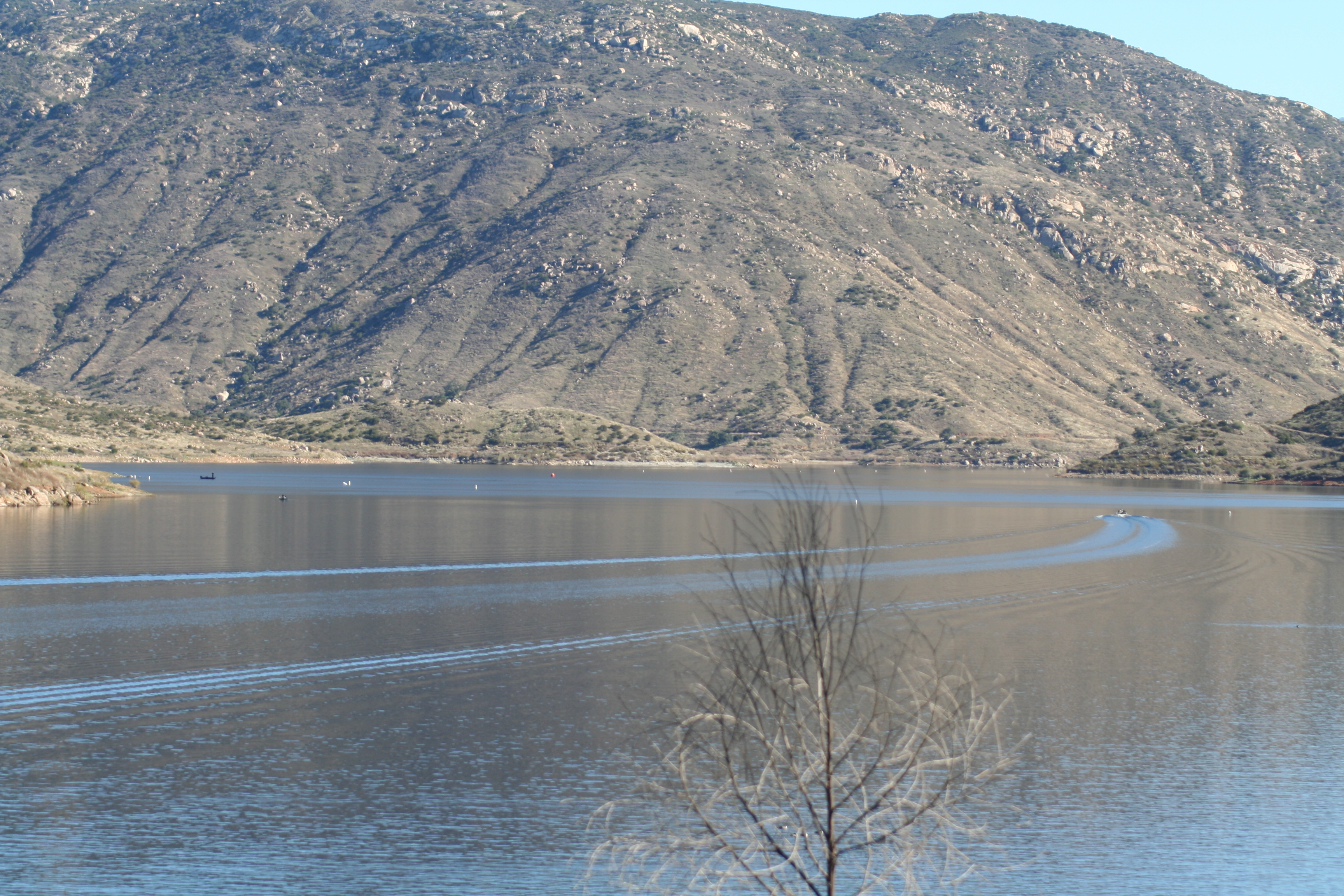 El Capitan Reseviour, Lakeside Ca, San Diego County, El Monte Valley